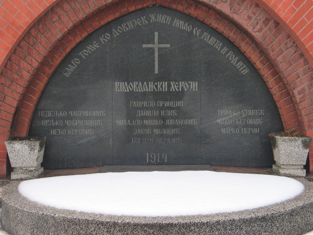 Vidovdan Heroes' Memorial in Sarajevo. Author: Nenad Shegulev